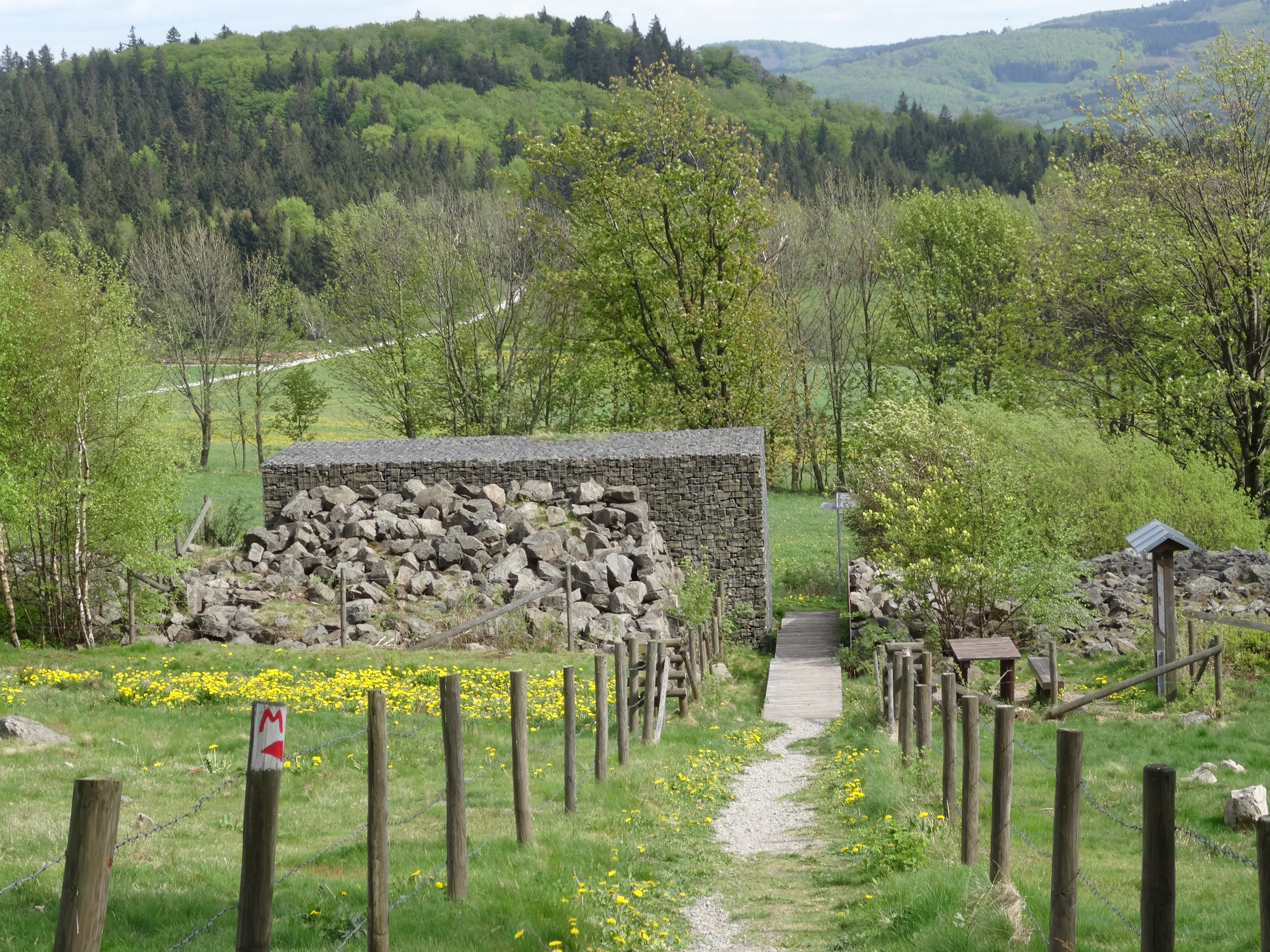 Replica of the circular wall of Milseburg